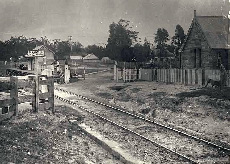 Valley Heights Railway Station - level crossing and gatehouse Dated: c. 31 December 1878 Digital ID: 17420_a014_a014000733 Rights: We'd love to hear from you if you use our photos. Many other photos in our collection are available to view and browse on our website using Photo Investigator.